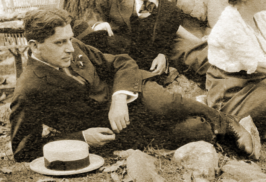 Group of artists seated on the ground, among the trees. Identification on verso (handwritten): Left to right - Paul Haviland, Abraham Walkowitz, Katharine N. Rhoades, Mrs. Alfred Stieglitz, Agnes Ernst (Mrs. Eugene Meyer), Alfred Stieglitz, J.B. Kerfoot, John, Marin. Property of Walkowitz family. Published in: Archives of American Art Journal v. 6, no. 2, p. 15; v. 40, no. 3-4, p. 36.